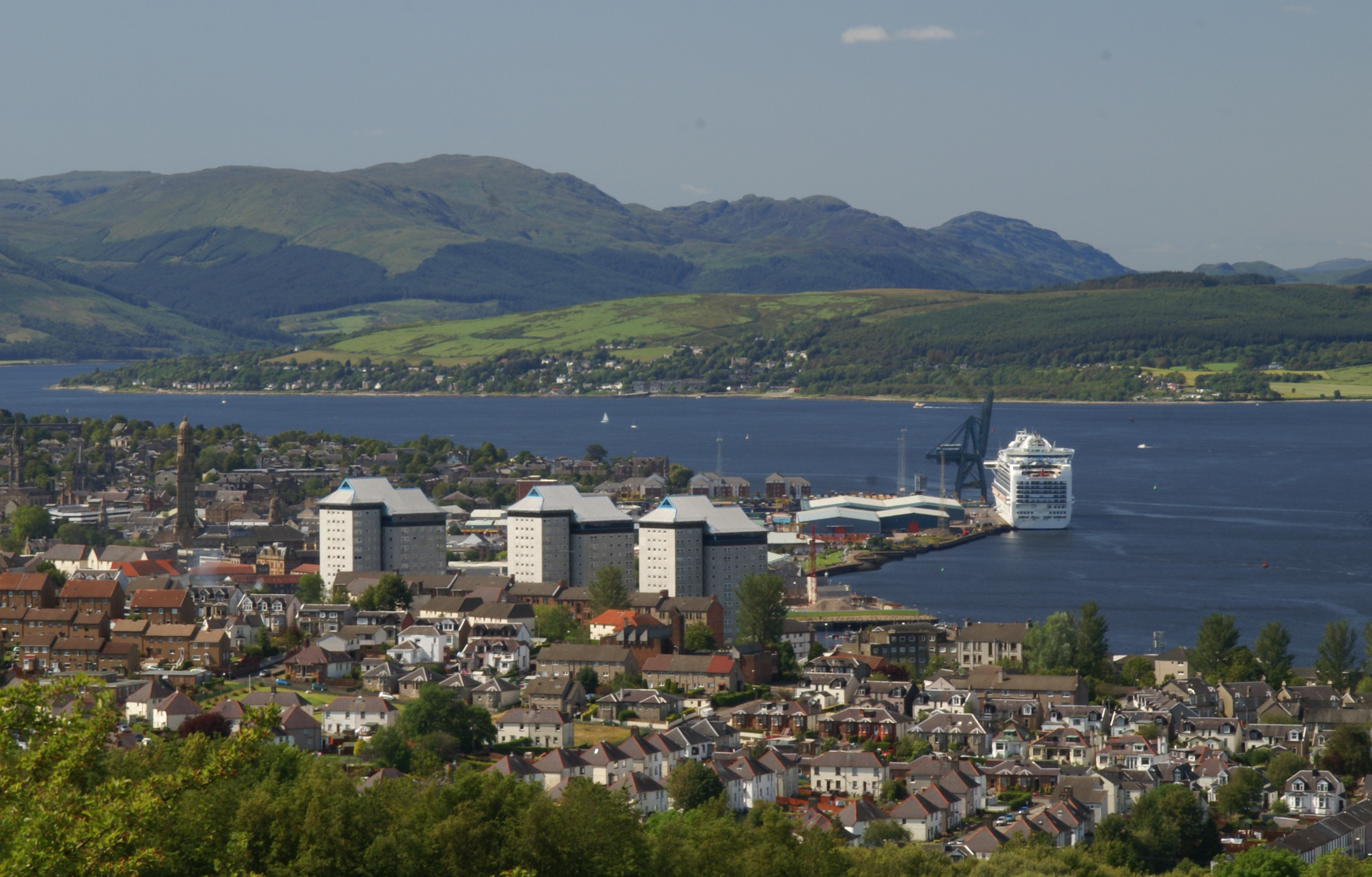 View looking north west over Greenock, Scotland, and across the Firth of Clyde towards Kilcreggan. The Cruise ship Golden Princess is shown docked at Greenock Ocean Terminal.